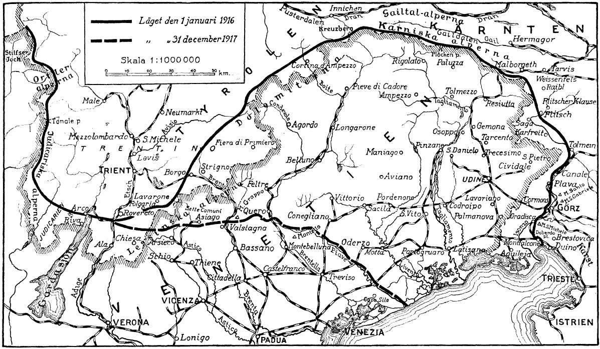 The Italian front 1916-1917